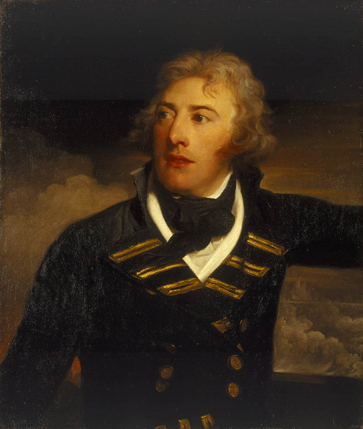 A half-length portrait of Sir Joseph Yorke, Admiral of the Blue, when a captain and wearing a captain's (under three years) undress uniform 1787-95. He is facing almost full-front with his head turned towards the left with his left arm outstretched. His jacket has gold braid and gold naval buttons and he wears a necktie. In the background the inclusion of the sea denotes his naval career. According to a memorial for Yorke's wife, Admiral Yorke was accidentally drowned 'by the upsetting of a boat on the 5th of May 1831.' Even in this small half-length, the pose has a dynamic tension often characteristic of Danloux's work. His best known portraits, in which this is even more apparent, are the large full-lengths of Admiral Duncan, victor of Camperdown, 1797, (now in the Scottish National Portrait Gallery) and of Admiral Lord Keith taking the Cape of Good Hope in 1796 (Bowood House, Wiltshire).